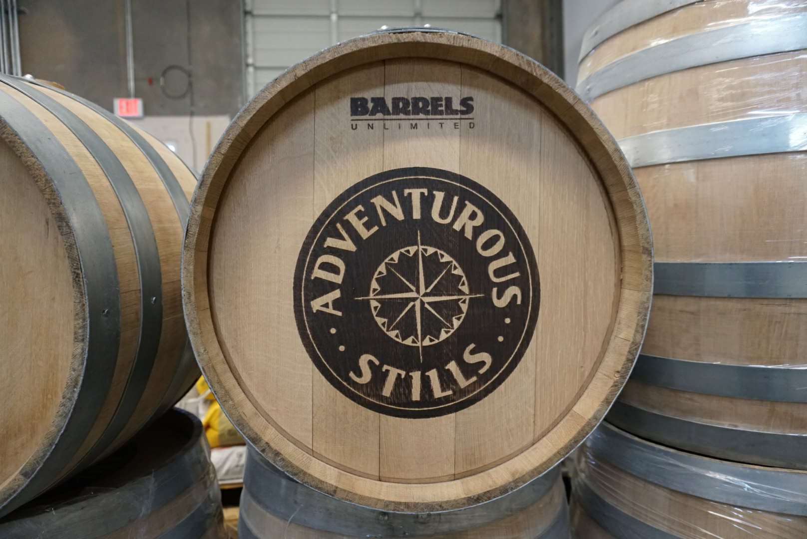 This is a charred oak barrel that Adventurous Stills uses to age whiskey. It is a char level 3 barrel.